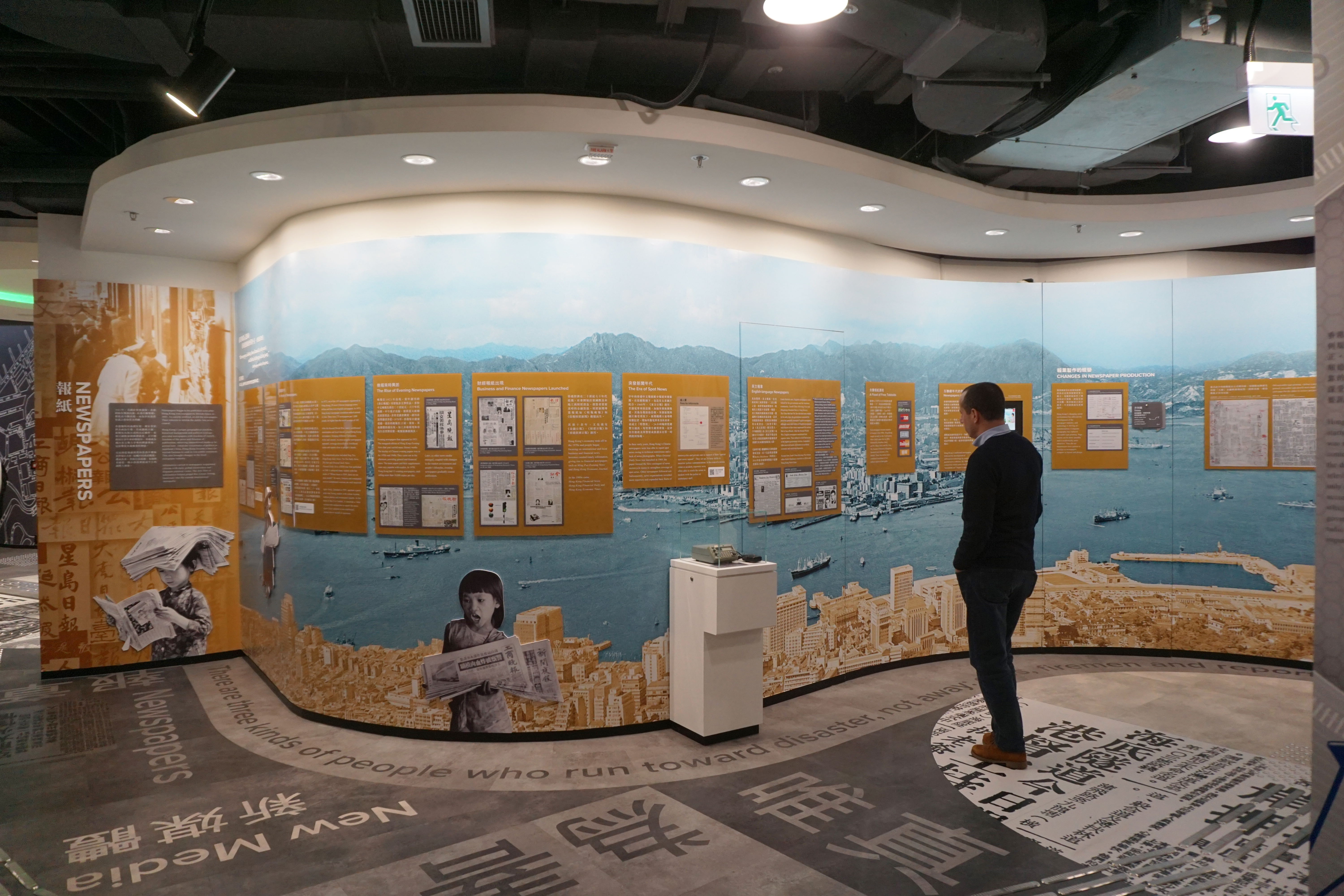 Hong Kong News-Expo in Central, Hong Kong.